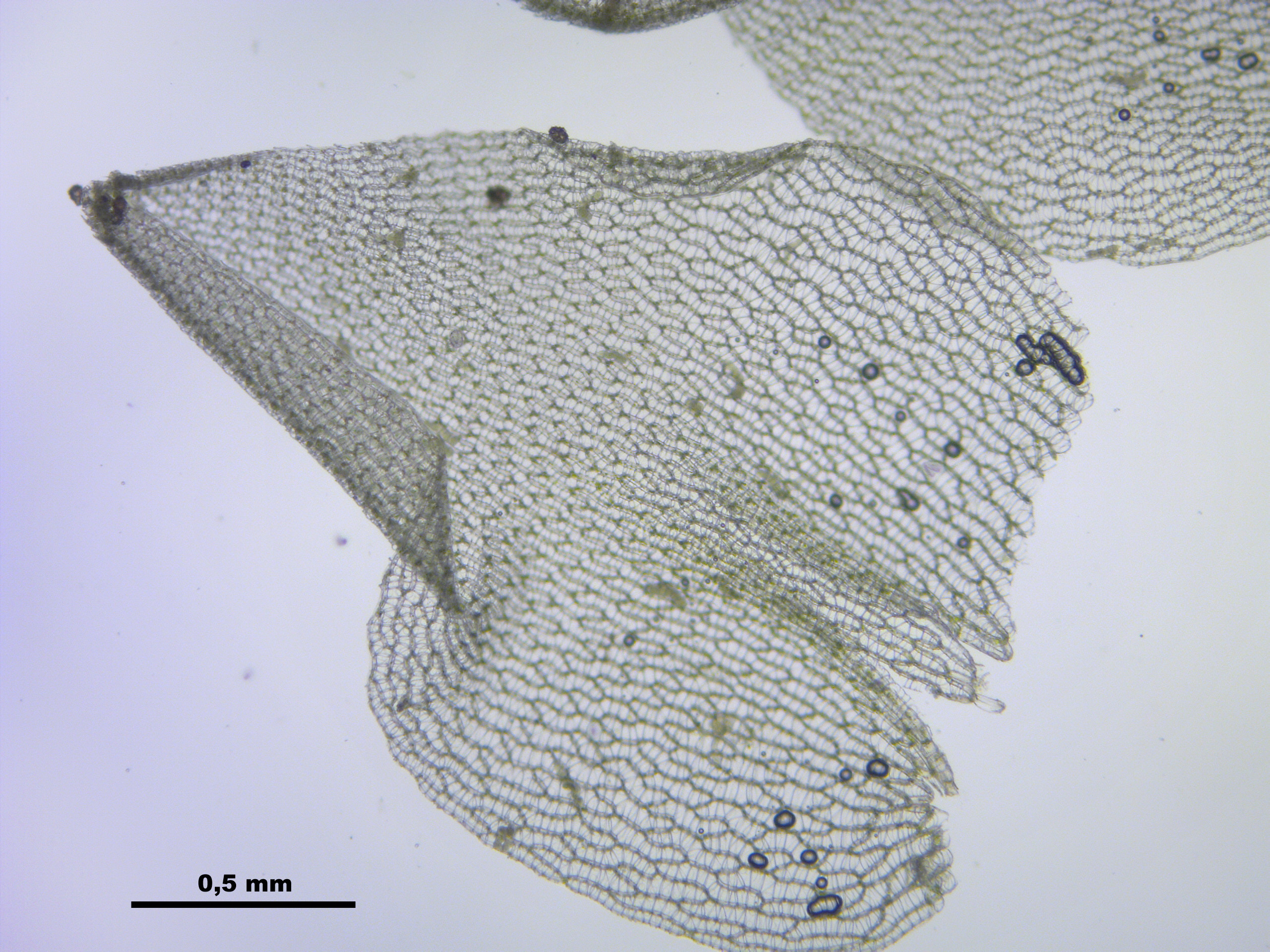 Sphagnum palustre